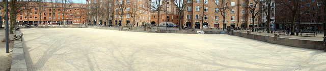 Panorama of Blågårds Plads in Copenhagen, Denmark, with Kai Nielsen's granite wall with 22 integrated statues of workers